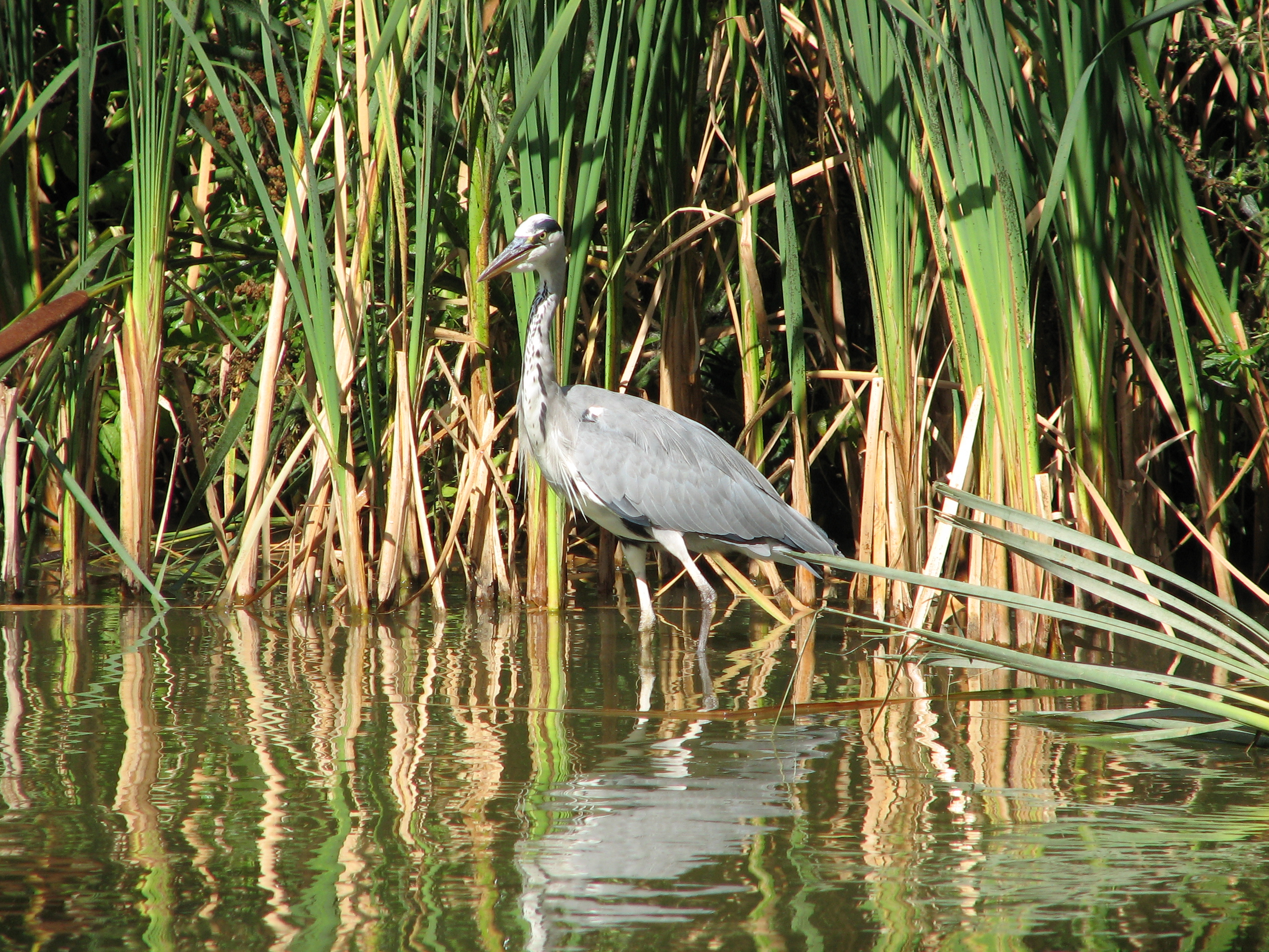 Grey Heron (Ardea cinerea). Picture taken in the Parc de Bercy (Paris 12th arrondissement), September 9 of 2005